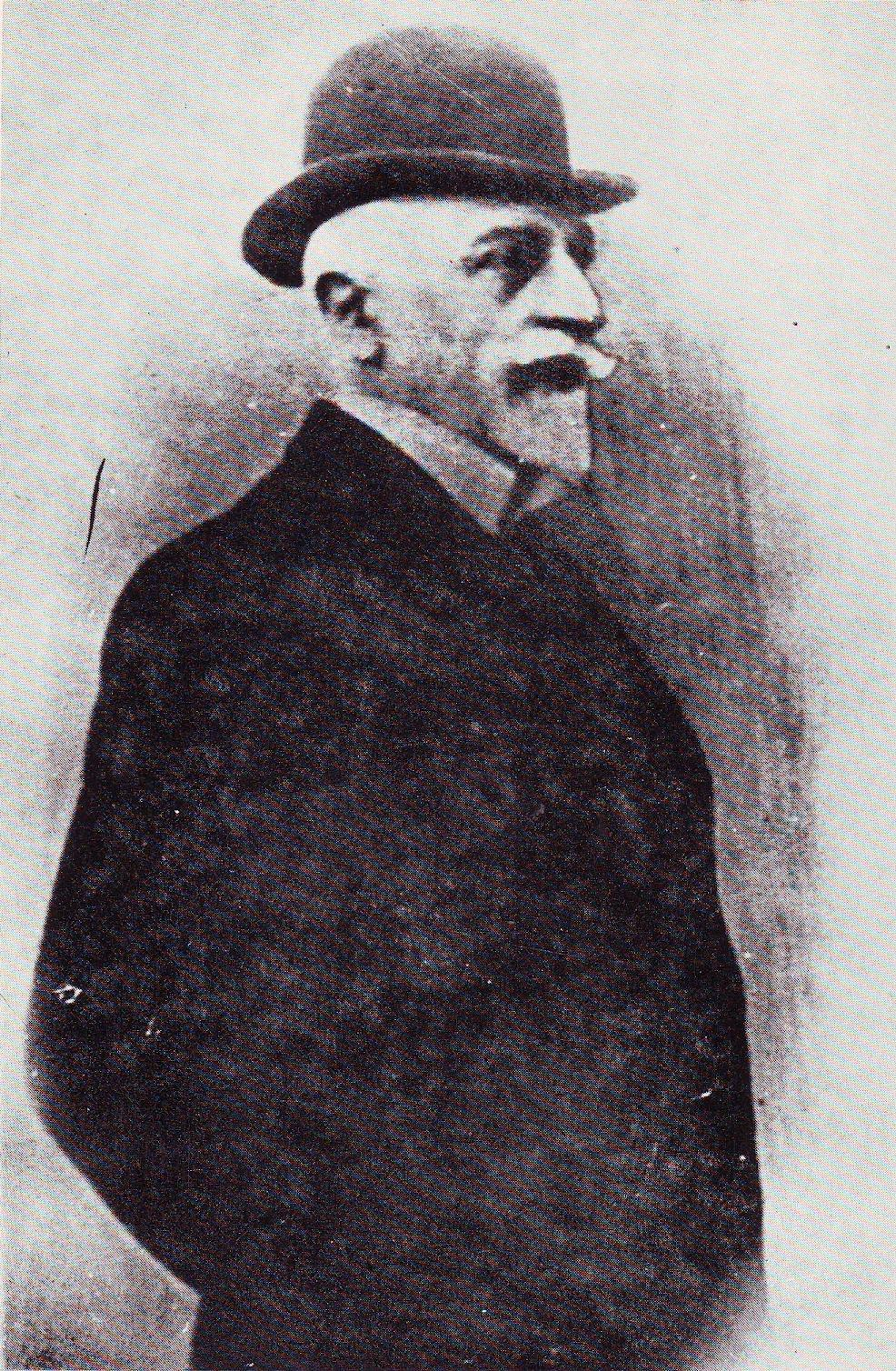 Lambros_Koromilas as Greek consul in Thessaloniki